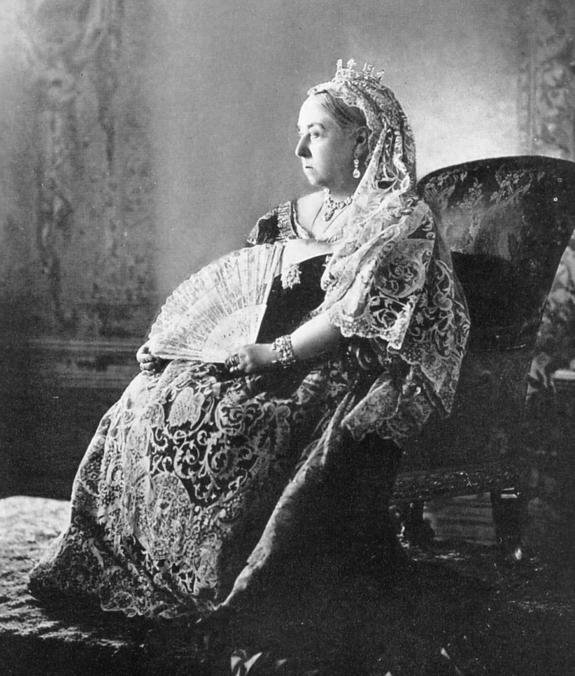 Photo of Queen Victoria of the United Kingdom / Empress Victoria of India, London, 1897.